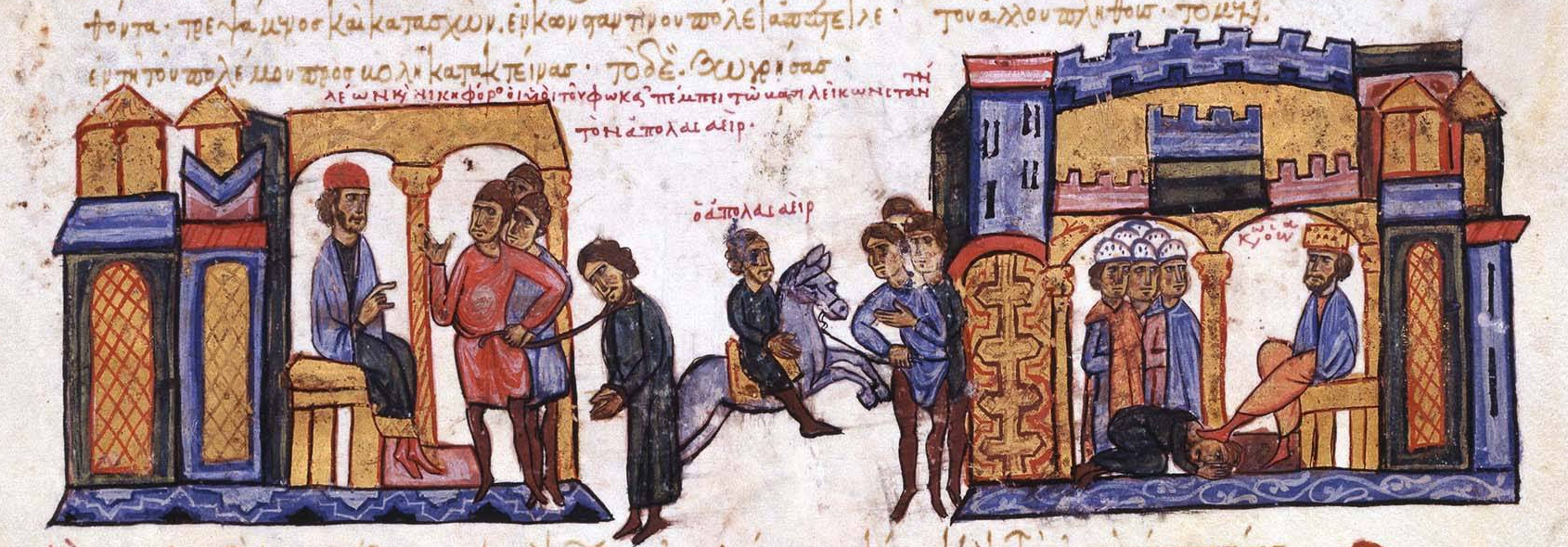 Leo Phokas sents the captive Arab general Apolasaeir (Abul Asair, cousin of Sayf al-Dawla), whom he defeated at Duluk in 956, to Emperor Constantine VII in Constantinople